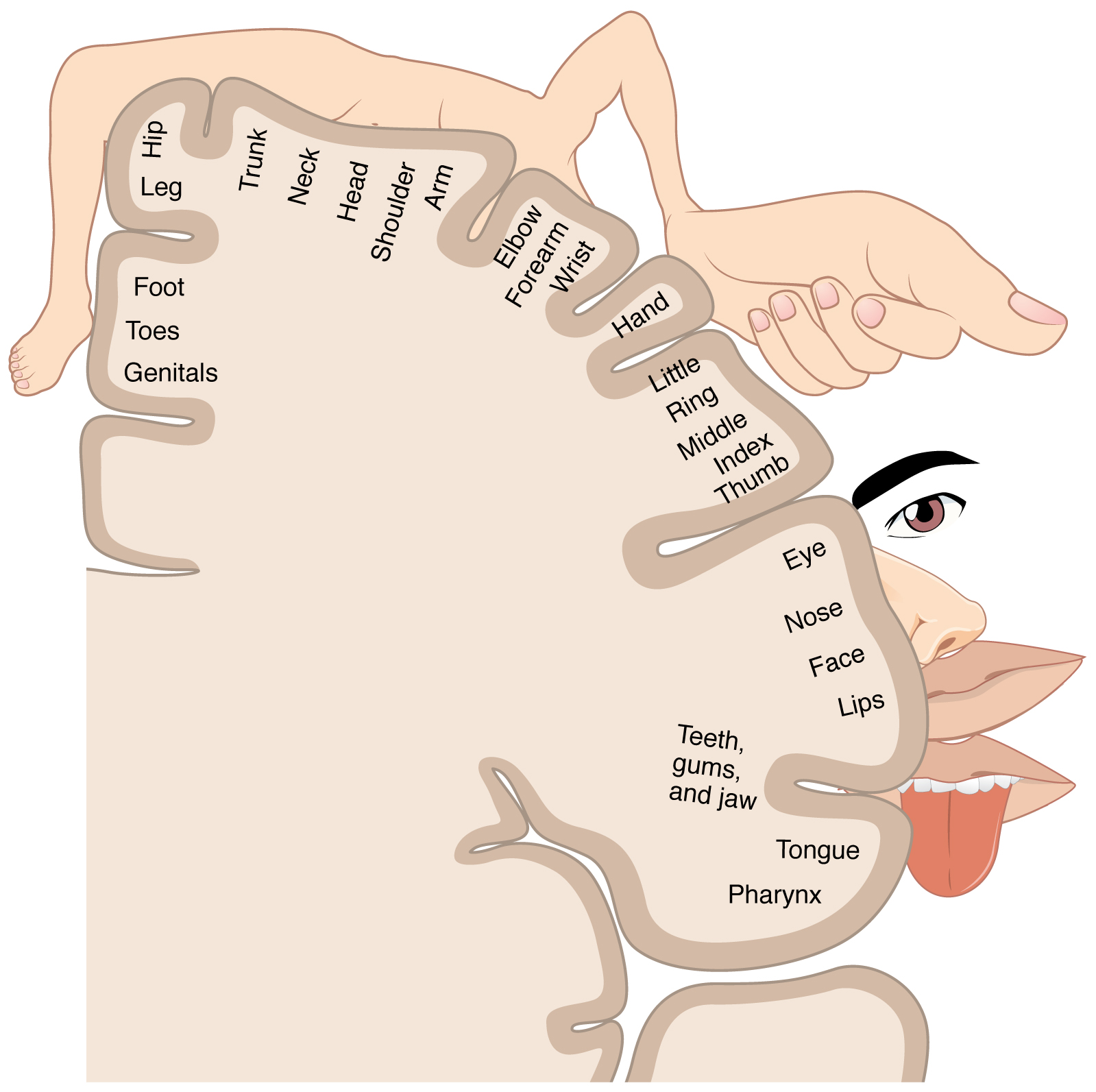 Illustration from Anatomy & Physiology, Connexions Web site. Jun 19, 2013.